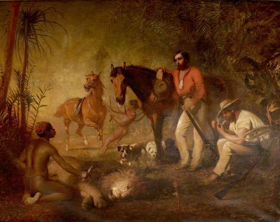 South African scene